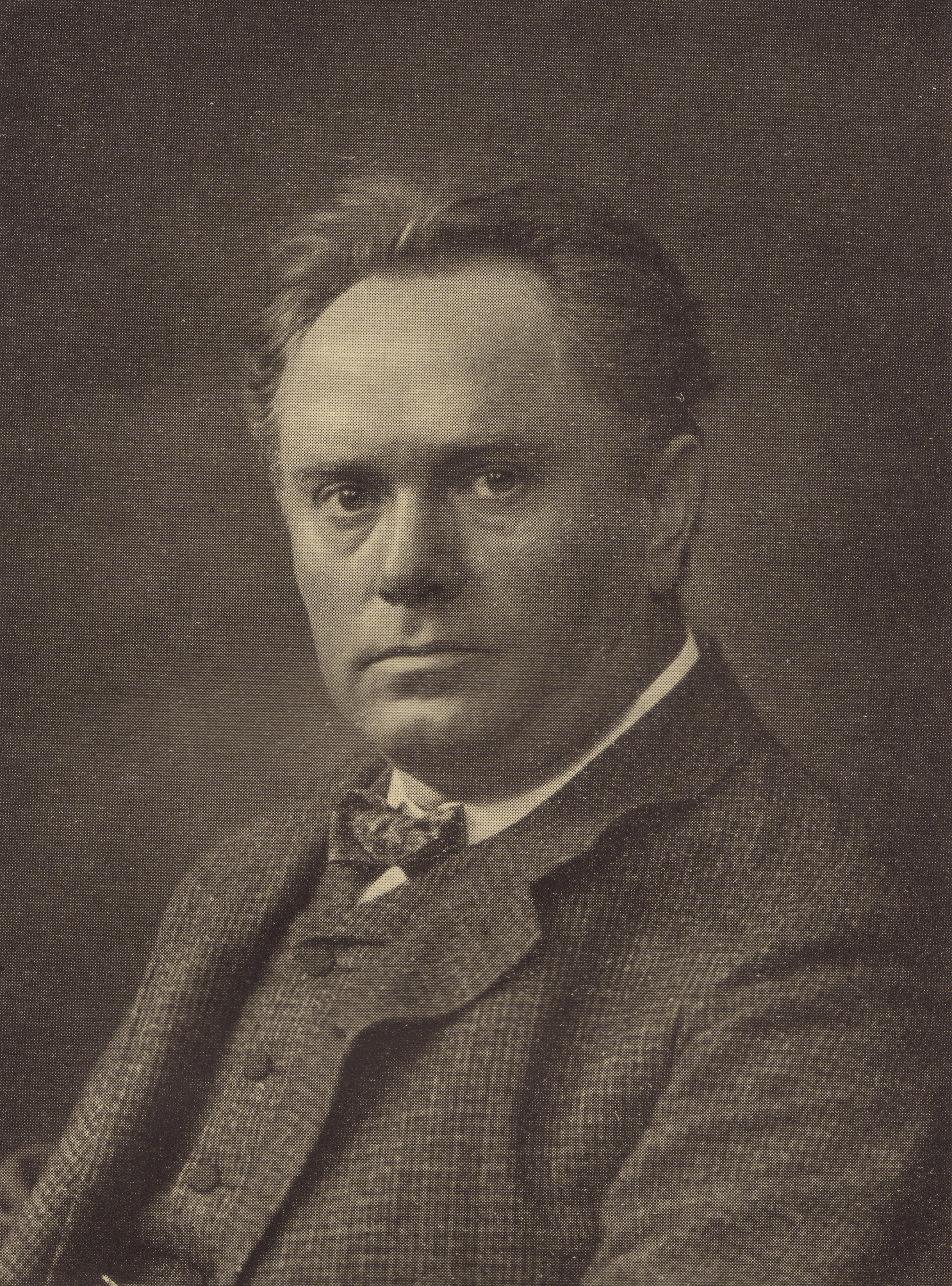 Scanned from Modern Musicians by J. Cuthbert Hadden (First published by T.N.Foulis in 1913) - September 1918 Foulis reprint. Book is in the Public Domain in the US and UK. Scanned as 1200 dpi bitmap (photo) then converted to jpeg.